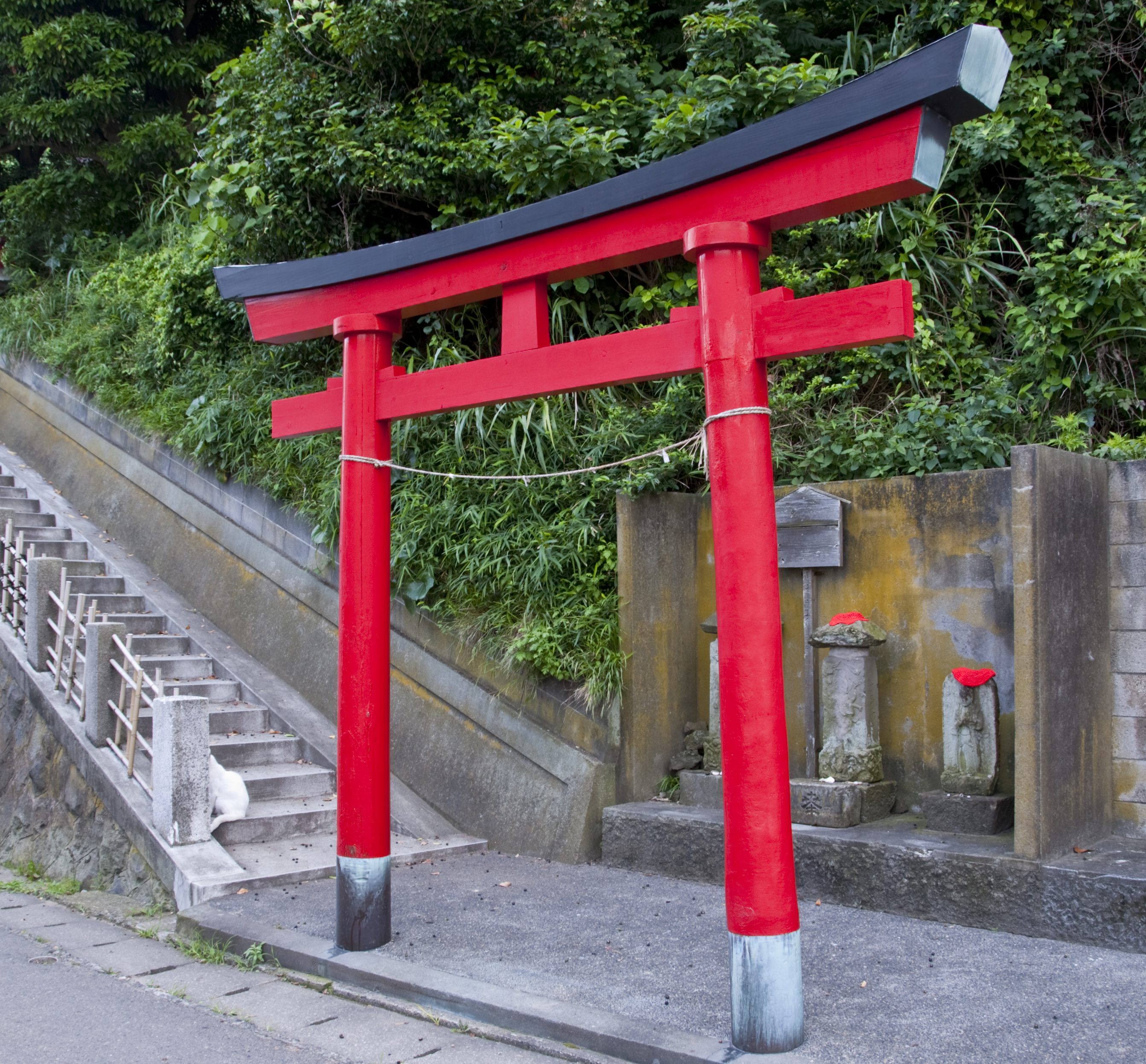 A photo showing the pentagonal profile of a Japanese torii